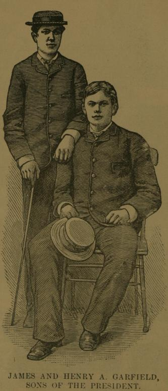 Illustration related to Garfield/Guiteau